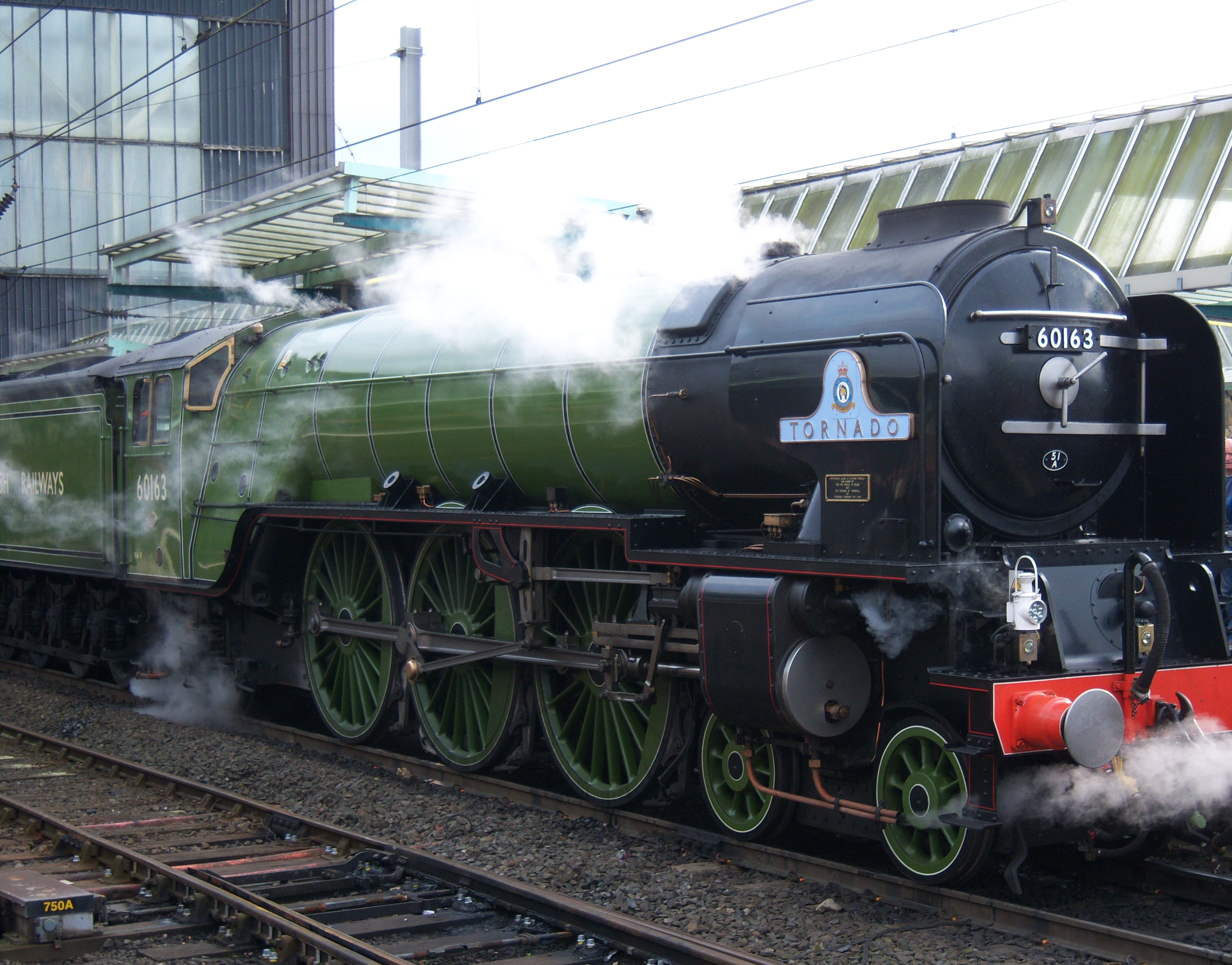 Brand new British steam locomotive No. 60163 Tornado, having just arrived at Platform 3 of Carlisle railway station (from the south), with the The Cumbrian Mountain Tornado railtour